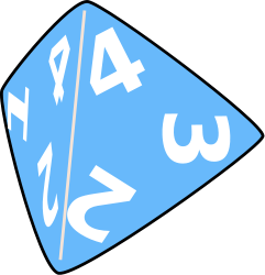 4 sided dice